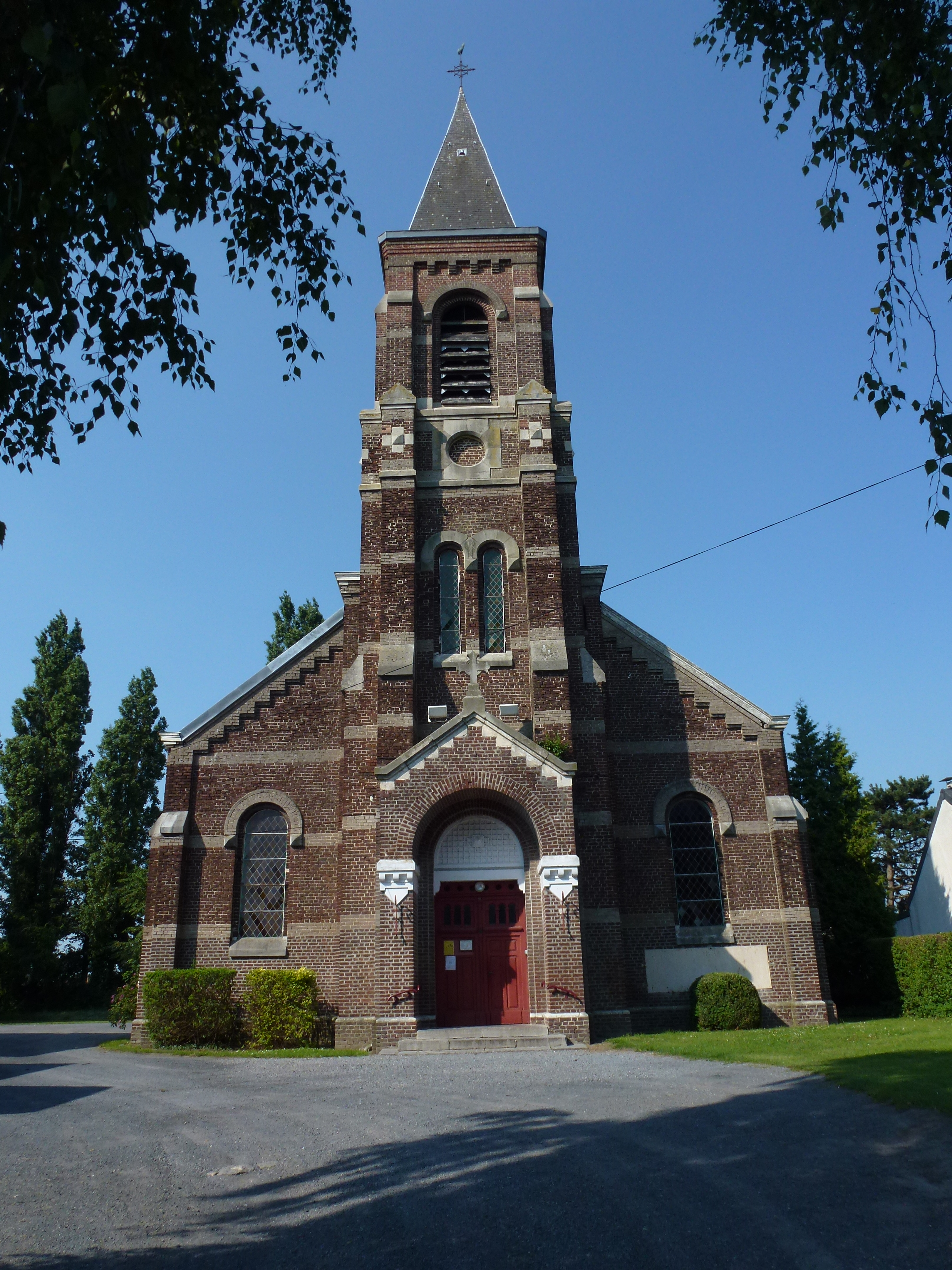 Petite-Forêt (Nord, Fr) église